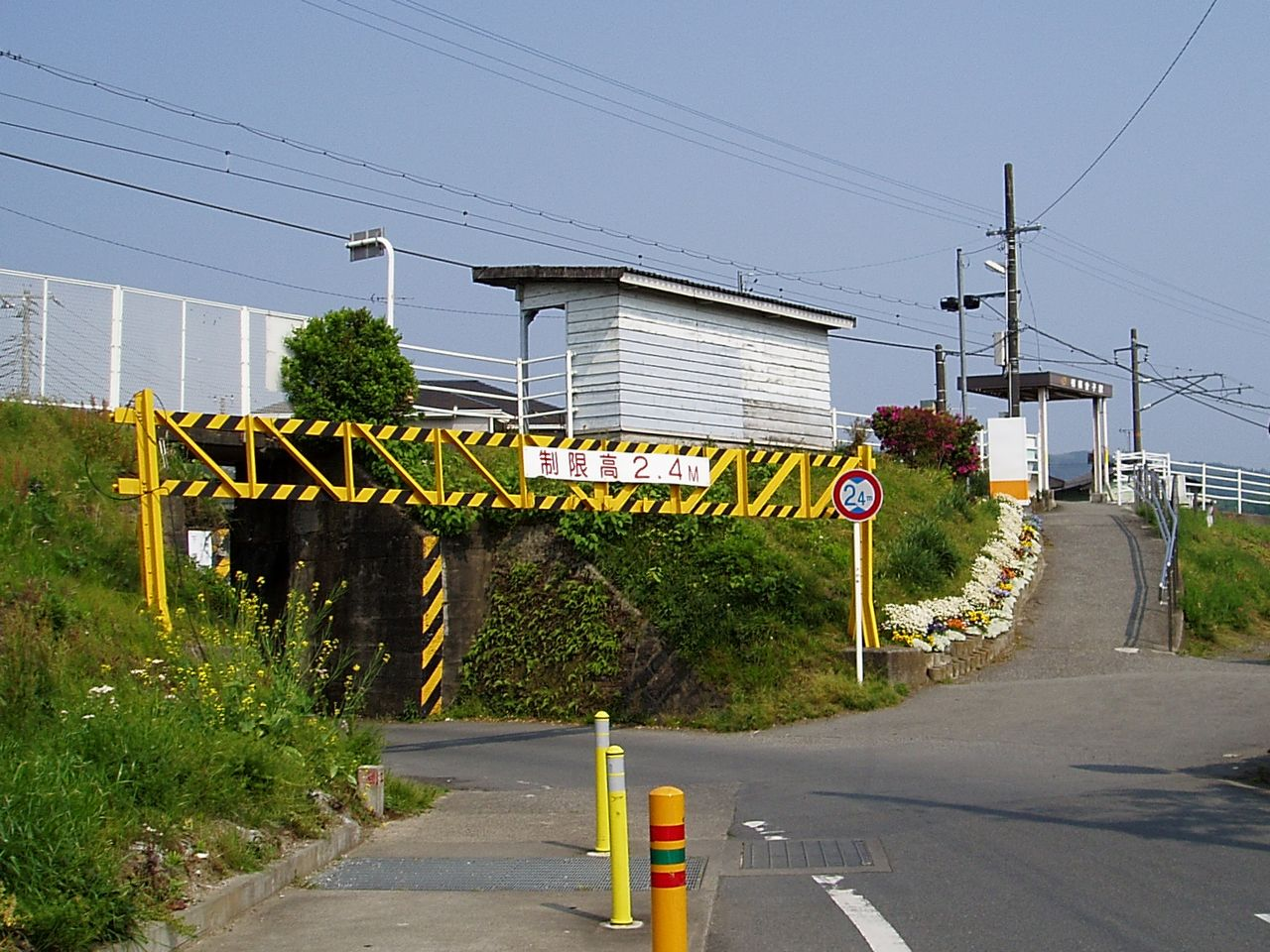 Sagami Kaneko Sta. entrance